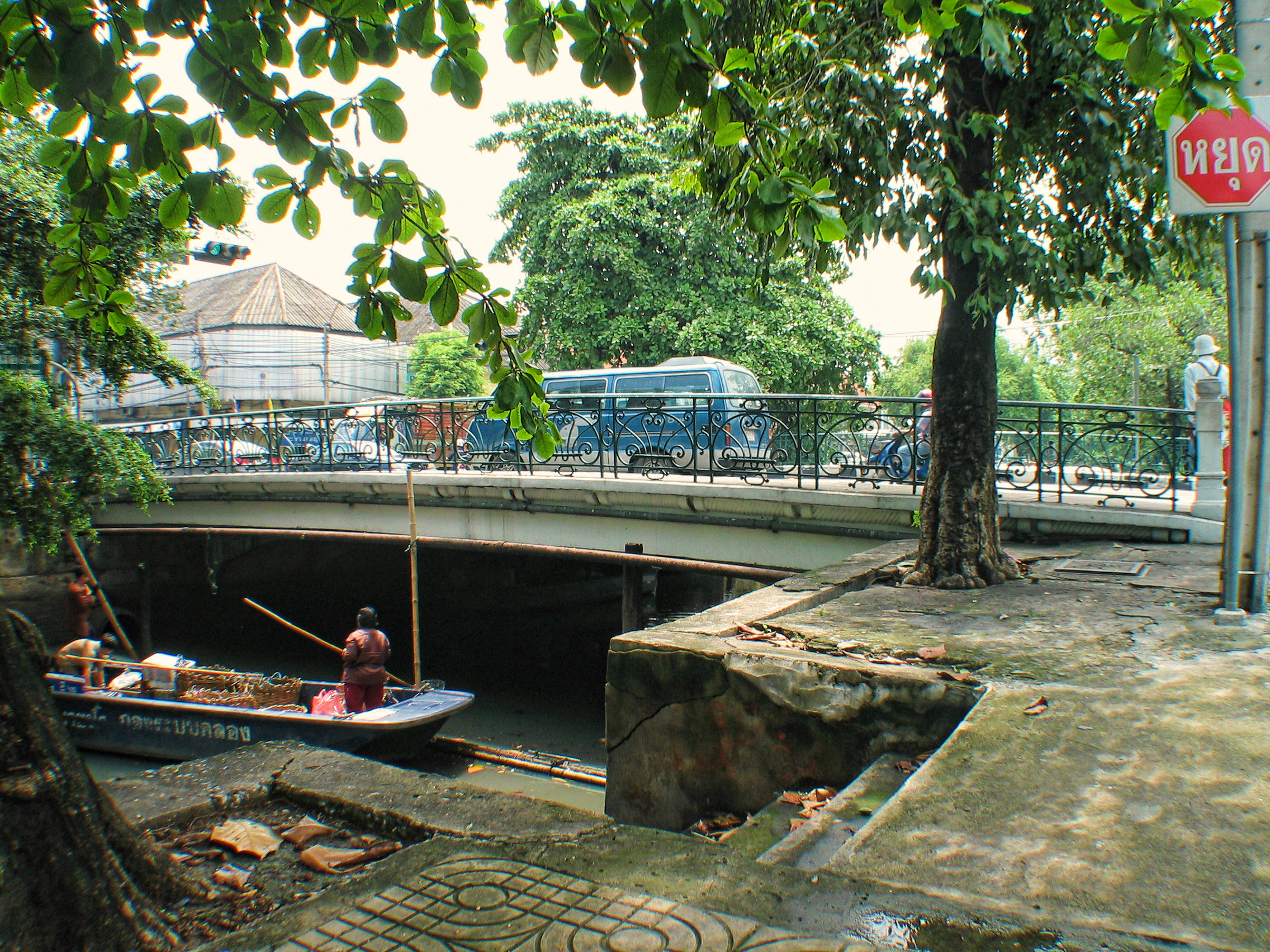 Saphan Mon (Mon Bridge) (Charoen Krung Road over Khlong Lot) was built as wooden structure in the reign of King Rama III, King Vajiravudh ordered a replacement with a concrete one.